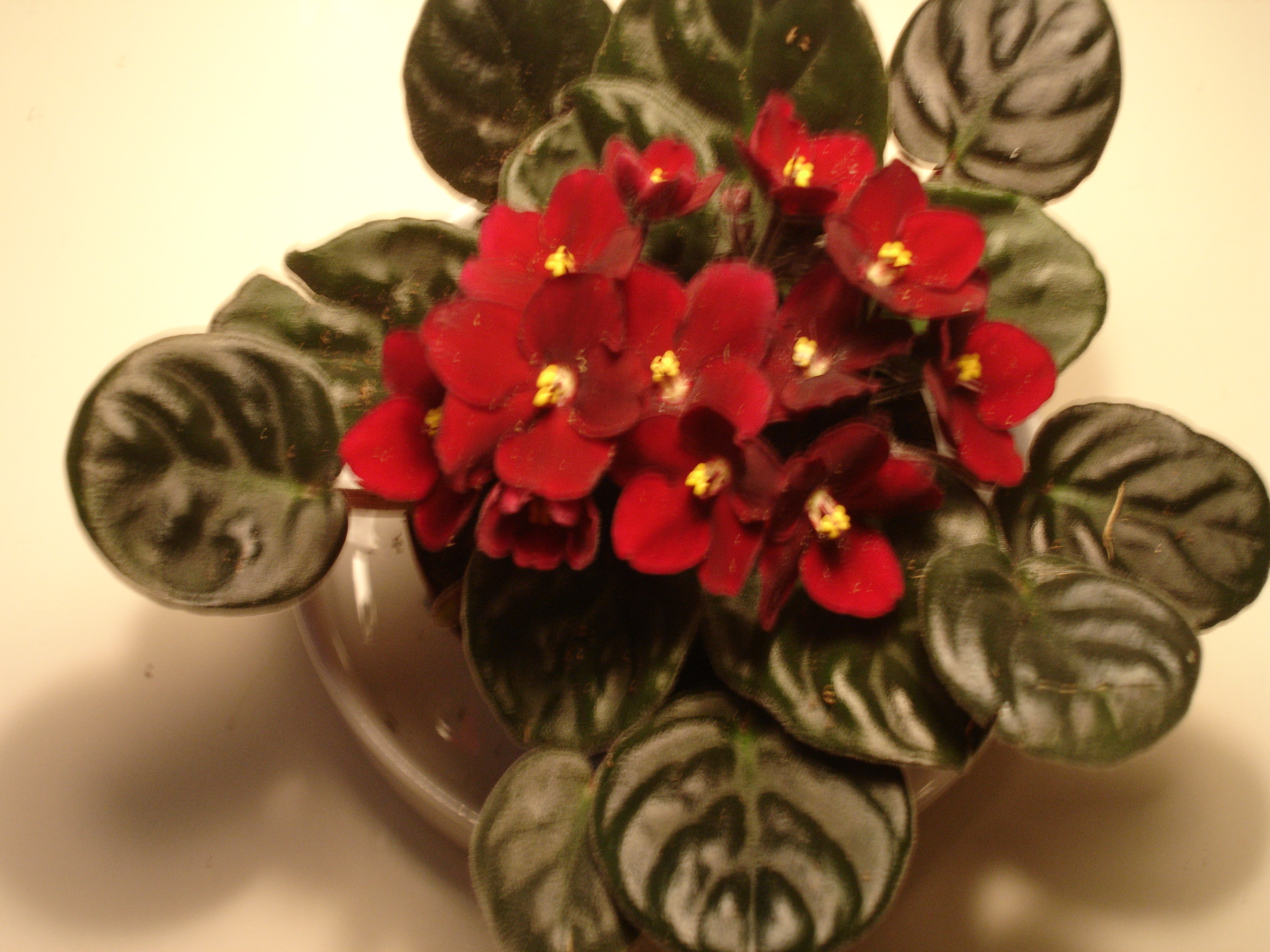 Saintpaulia; red flowers - Later, the plant will not produce any red flowers anymore. just violet